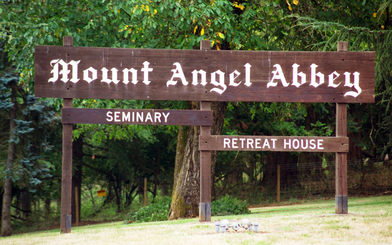 Would this qualify as a Featured Picture and thus inclusion in the Featured Widescreen Desktop Backgrounds category? Perhaps one day... Mount Angel Abbey, Oregon, USA formatted for widescreen computer desktop backgrounds